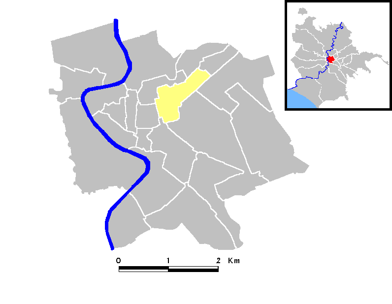 Locator maps of Rome (rioni)